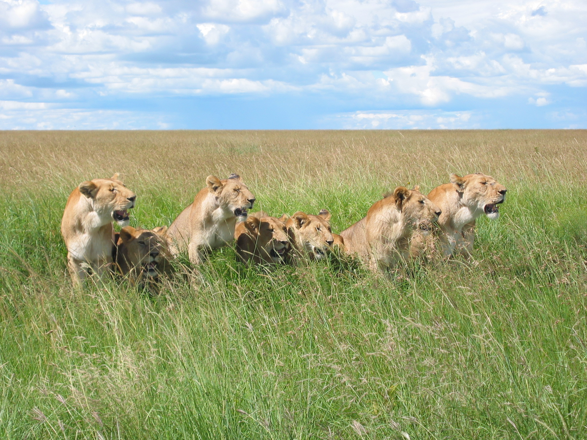 7 lions spotted along the road in the Masai Mara National Park in Kenya.